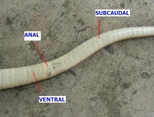 Ventral, anal, subcaudal scales on underside of a snake's body. (Photo 4) Original photo is of Buff-striped Keelback Amphiesma stolata Family Colubridae, Serpentes.